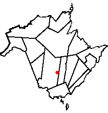 Fredericton, New Brunswick Location